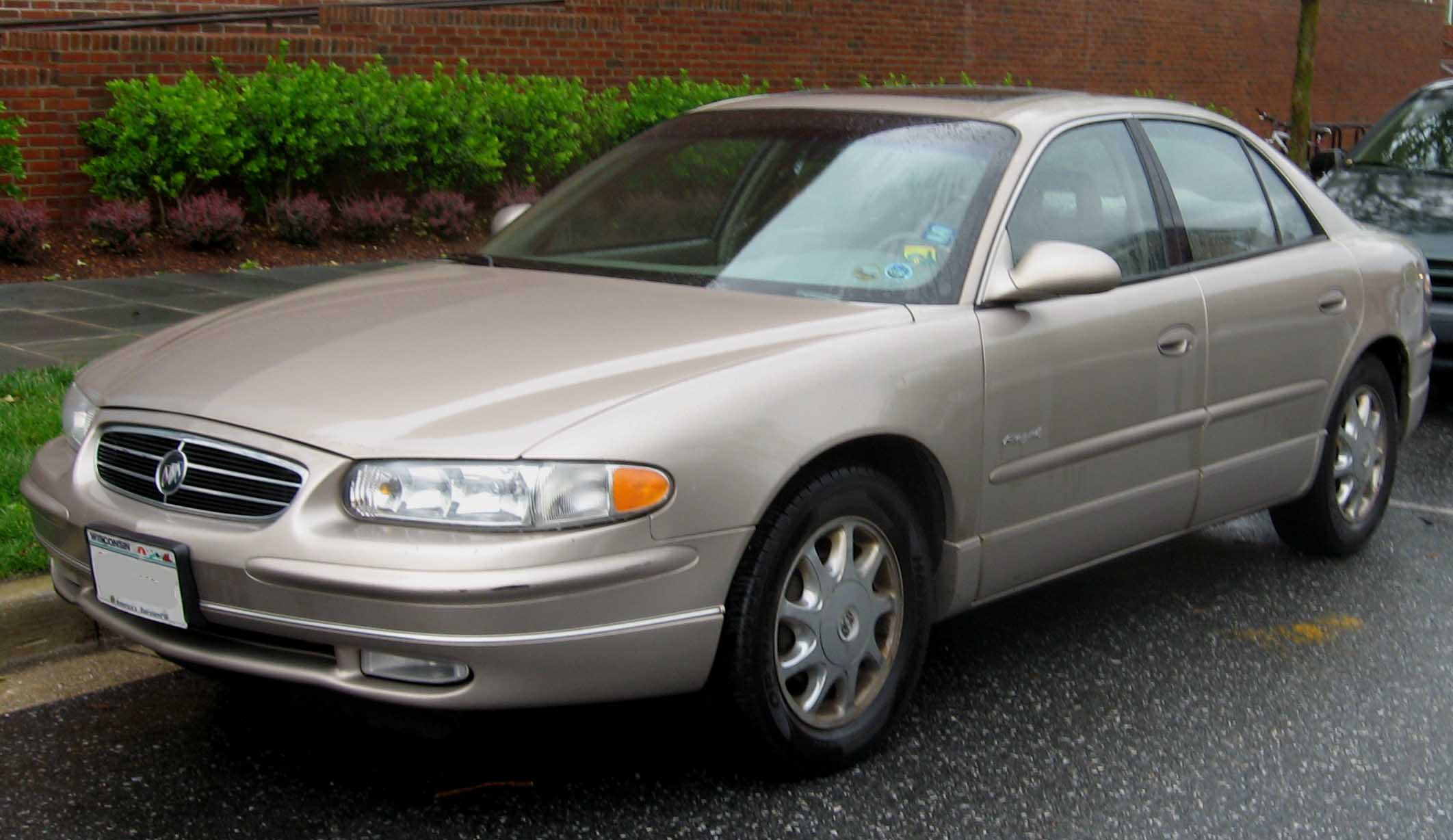 1997-2004 Buick Regal photographed in College Park, Maryland, USA.